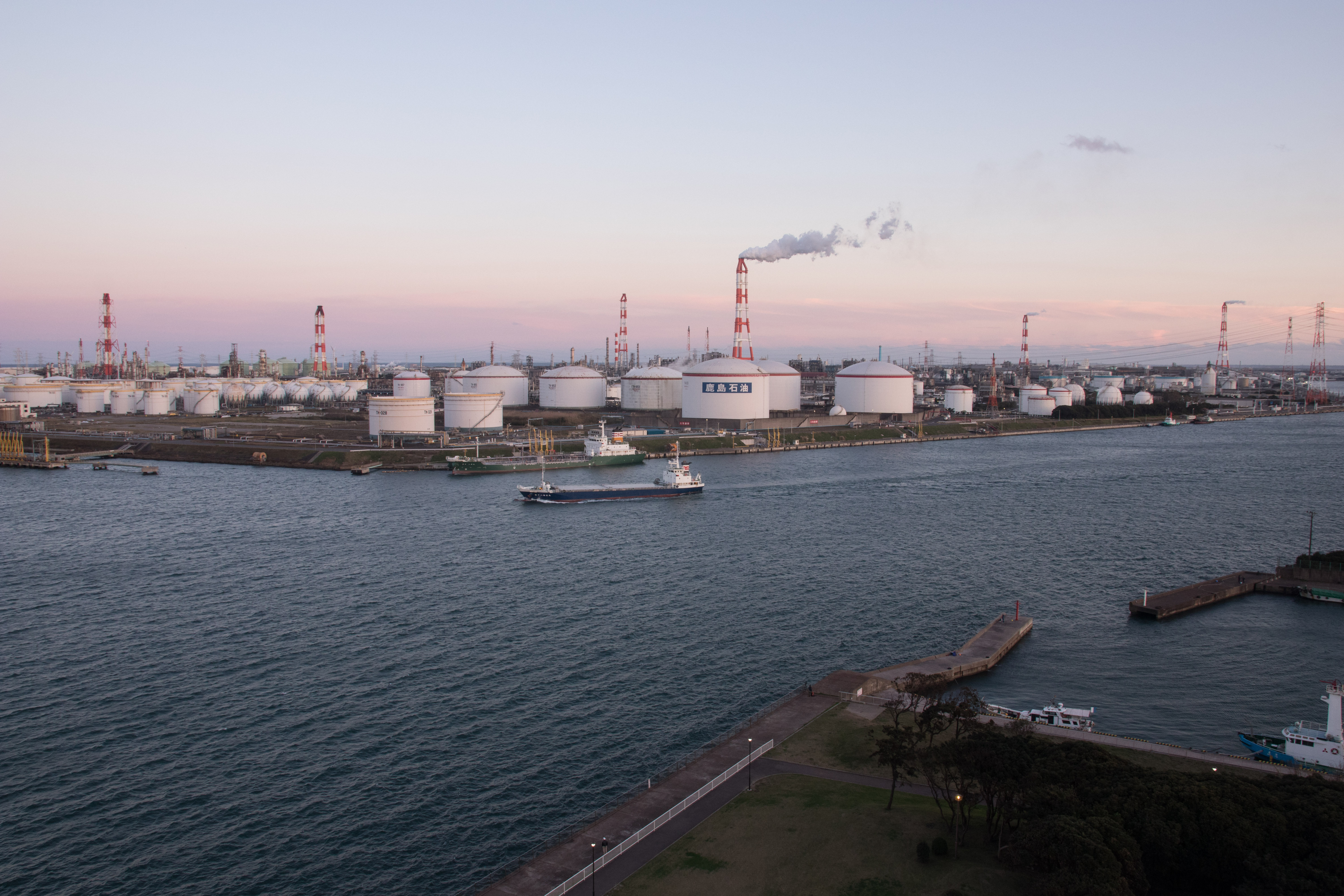 Kashima Refinery, Kamisu City, Ibaraki Pref., Japan